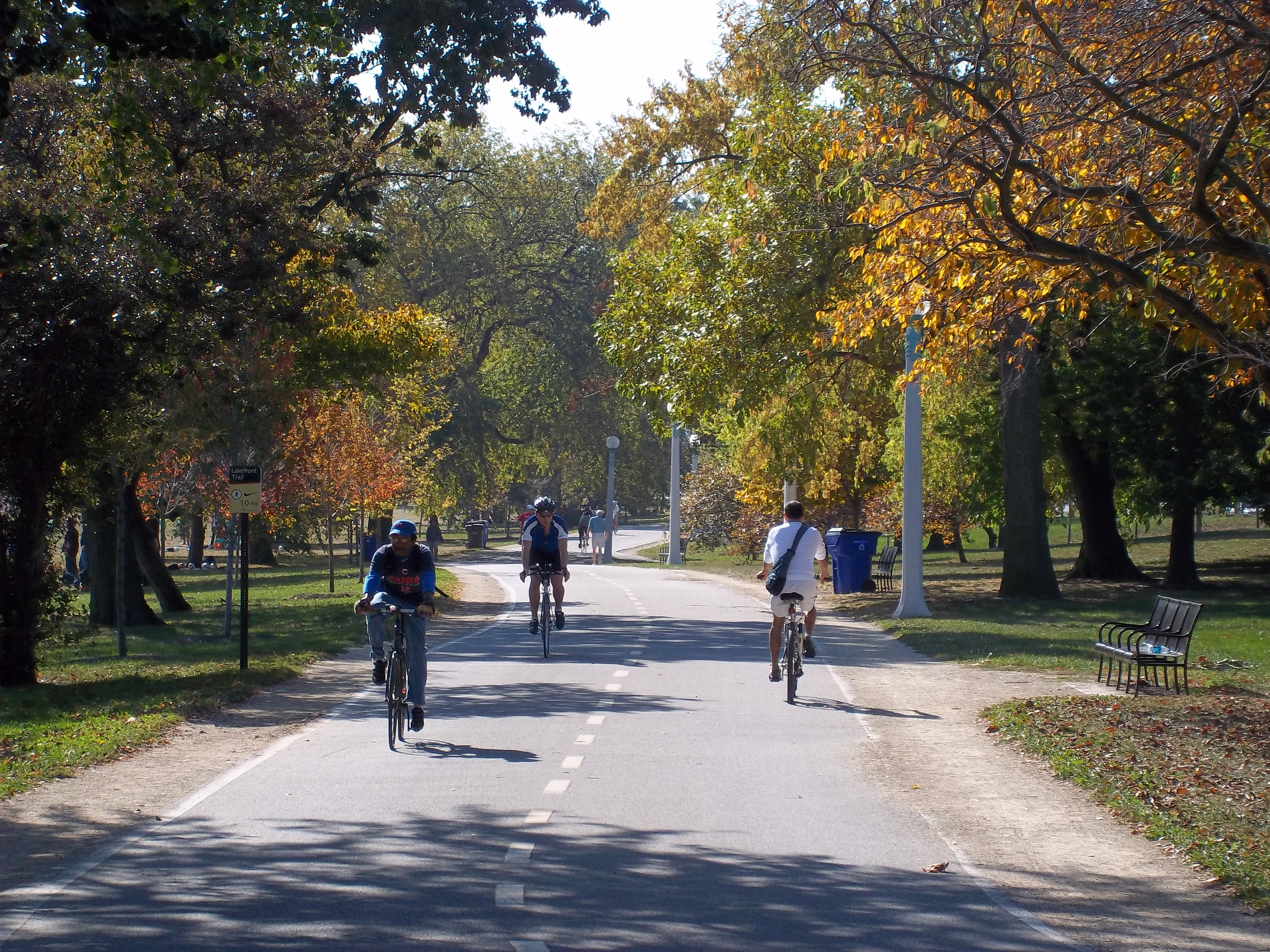 Chicago Lake front bike trail